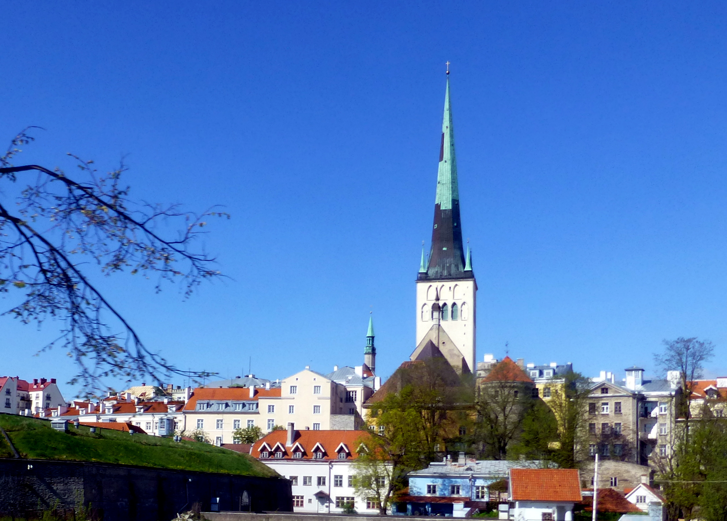 St. Olaf's Church --- Oleviste kirik